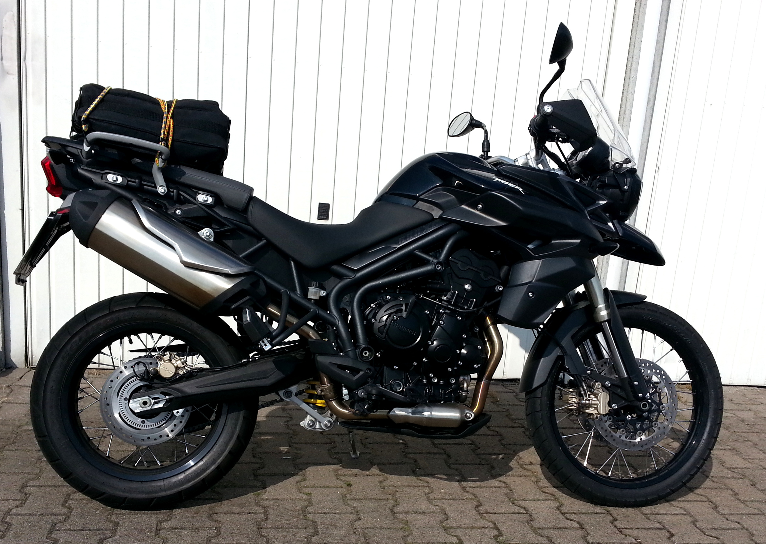 Motorcycle, manufacturer Triumph, Type Tiger 800 XC